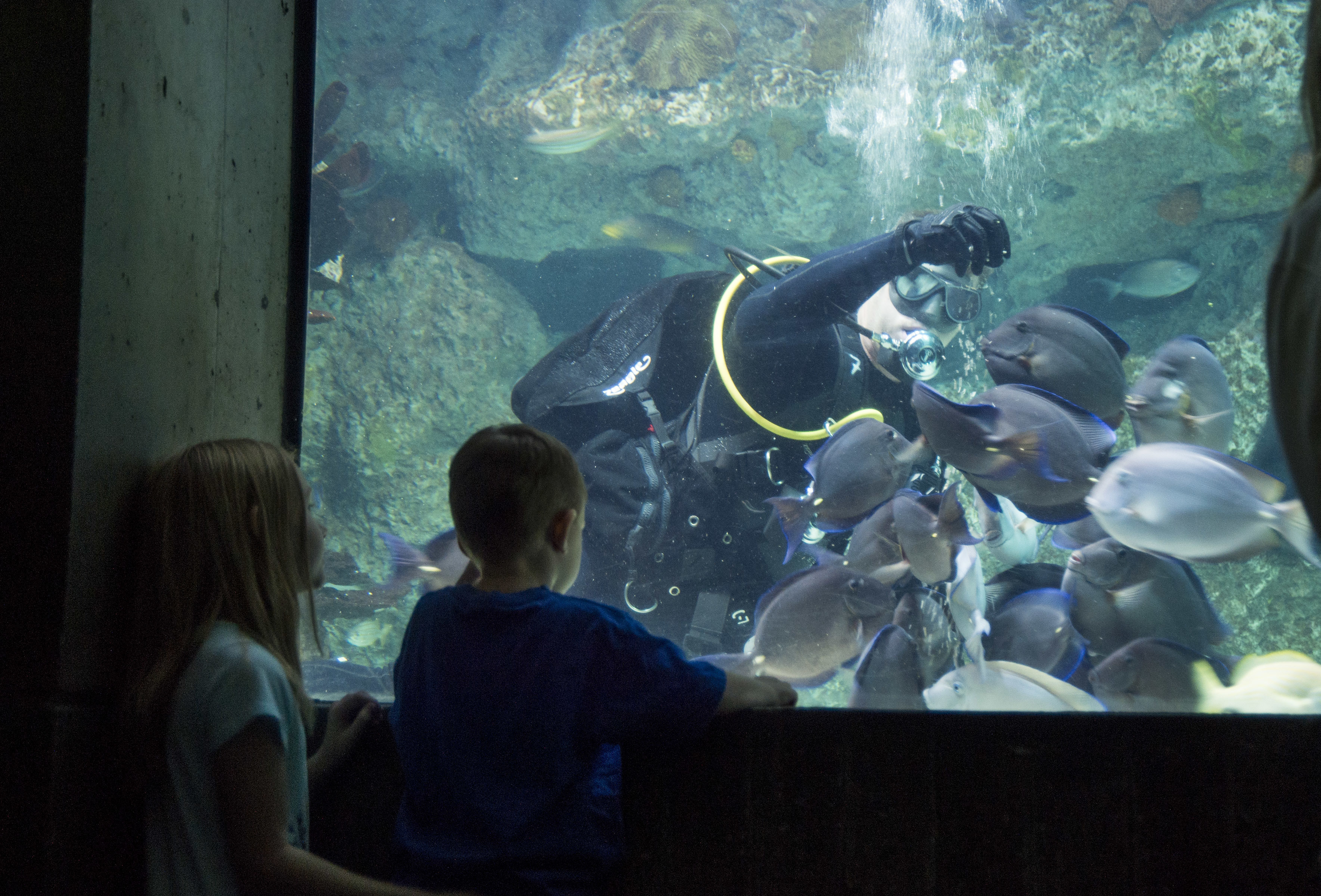 Navy Diver 1st Class Dale Parke, assigned to Mobile Diving and Salvage Unit (MDSU) 2, feeds fish while diving in the Baltimore National Aquarium during the Star-Spangled Spectacular. The event celebrates the bicentennial of the Battle of Baltimore which provided the inspiration for Francis Scott Key's famous poem, "Defence of Fort McHenry," which later became America's national anthem. Along with more than 30 ships from the U.S. and foreign nations, the U.S. Navy's Blue Angels aircraft will be on display and open to the public. (U.S. Navy photo by Mass Communication Specialist 2nd Class Darien Kenney/Released)